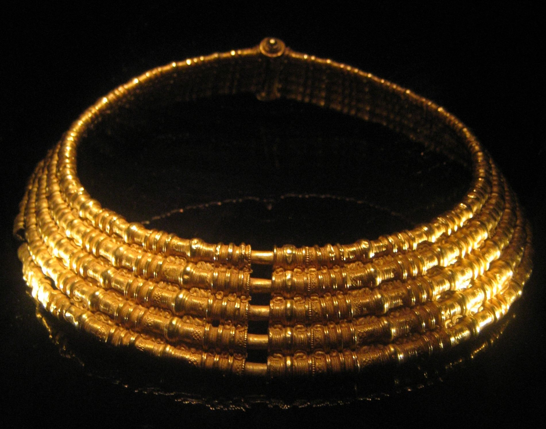 Prehistoric golden necklace from Torslunda, Färjestaden, Sweden. Roughly dated to AD 300–700.